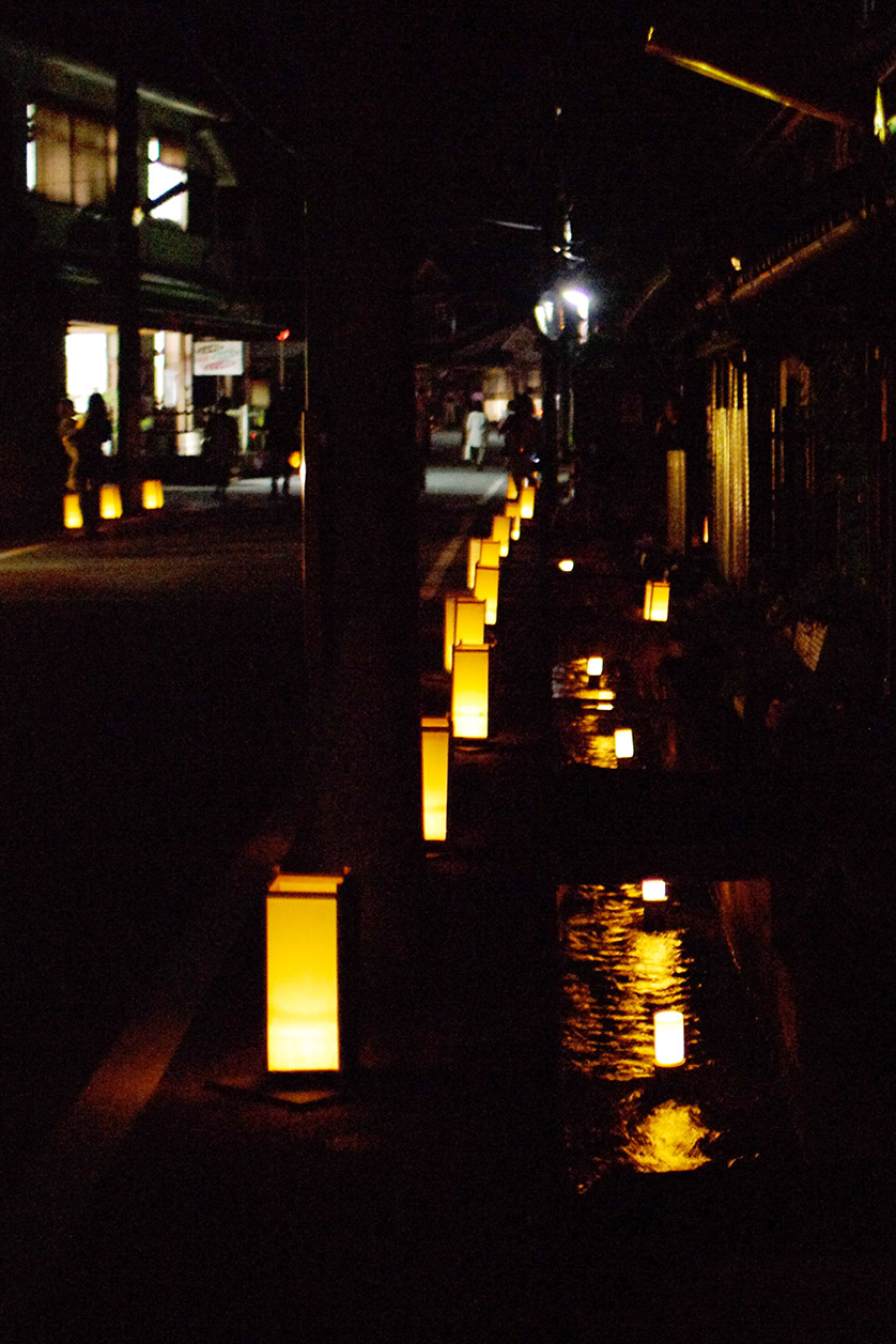 autumn illumination festival in asuka